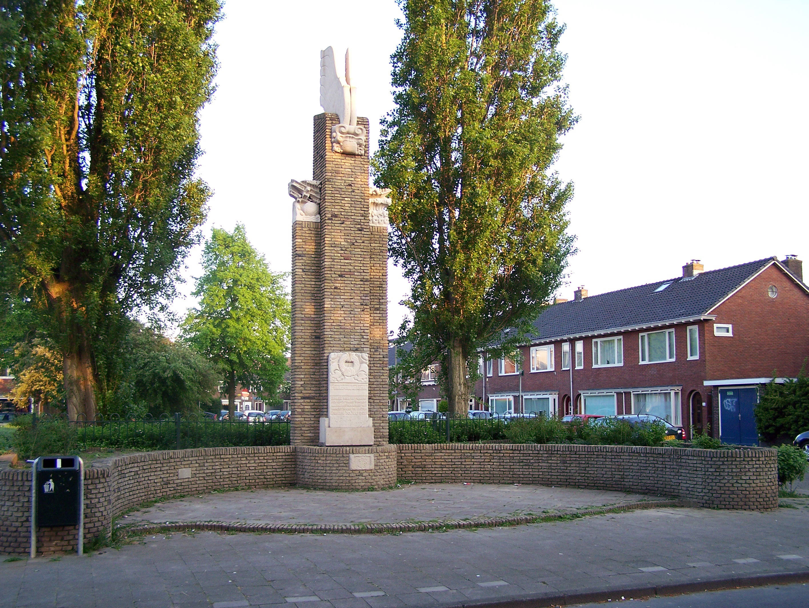 Monument in honour of the early dutch aviators. Made and placed in 1938 by Jo Uiterwaal with design also from W.C. van Hoorn. Placed at the Clement van Maasdijkstraat. Clement van Maasdijk was the first dutchman who died during a flightaccident. But it's unclear wether is has anything to do with the monument. Utrecht (and Zuilen) have no connection with Clement or with early aviation at all.